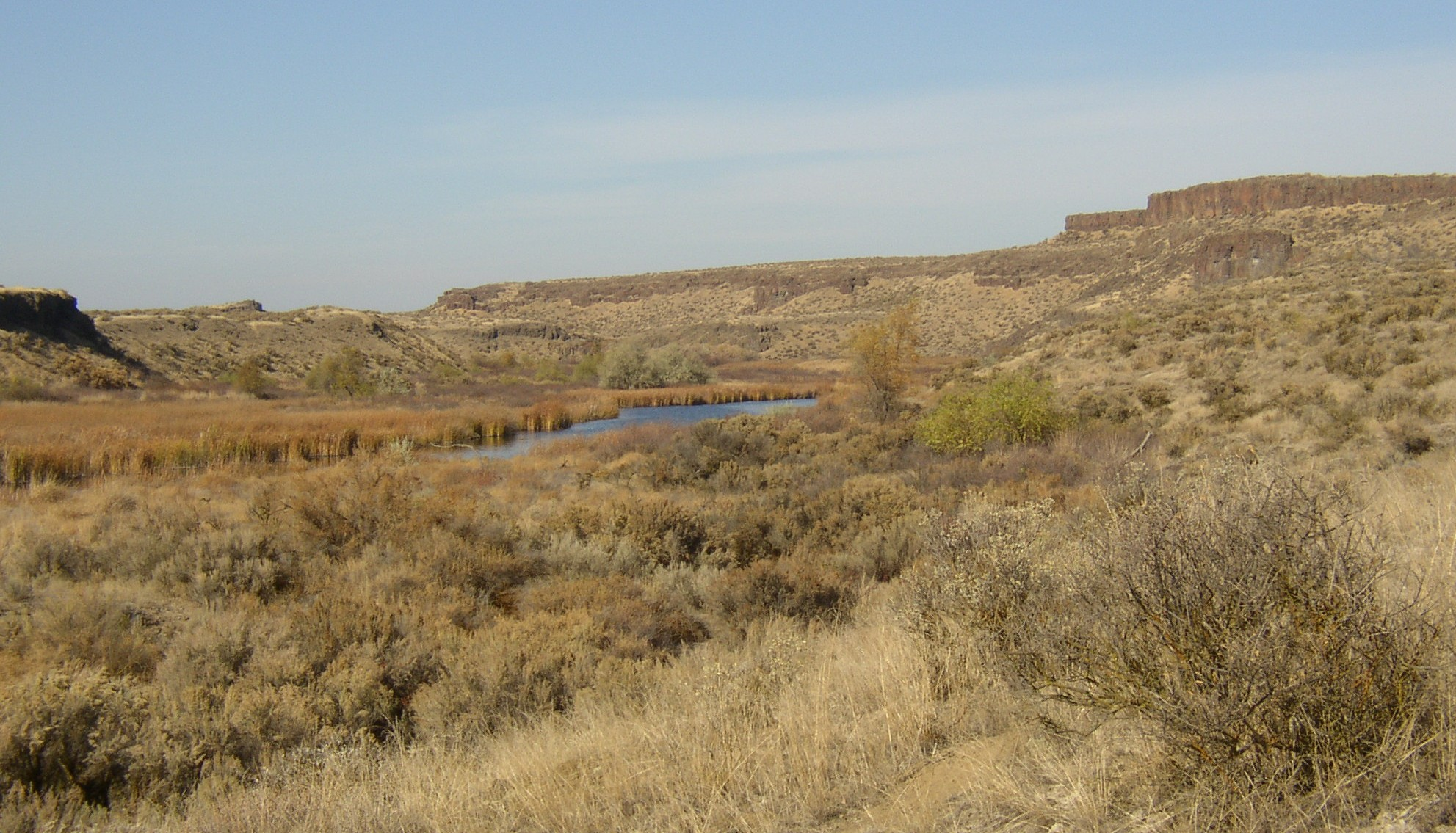 Crab Creek in the Drumheller Channels region. Photo taken by uploader. All rights released. Williamborg 05:36, 23 November 2006 (UTC)